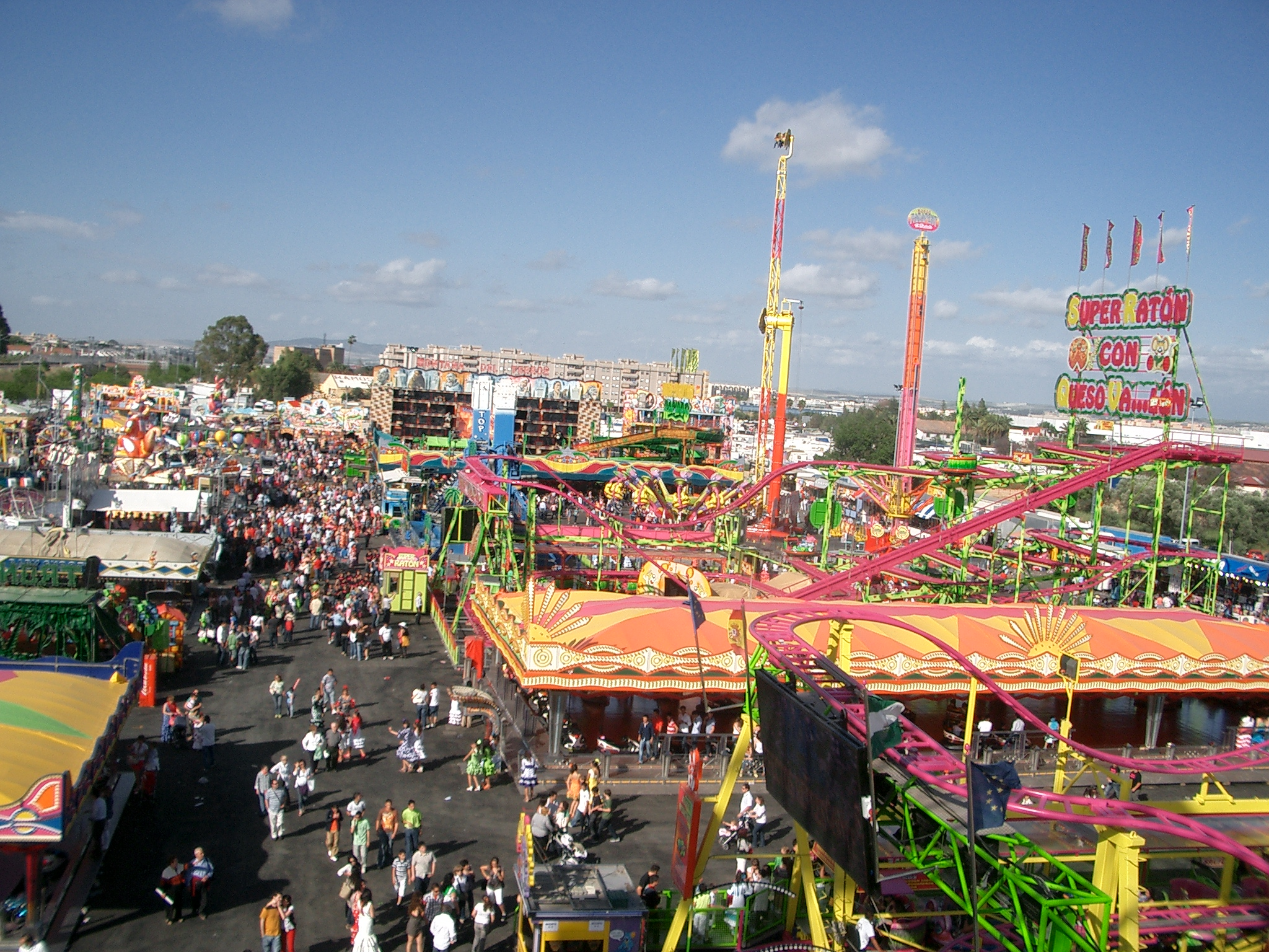 Jerez Feria from the noria. Jerez de la Frontera, Andalusia (Spain)